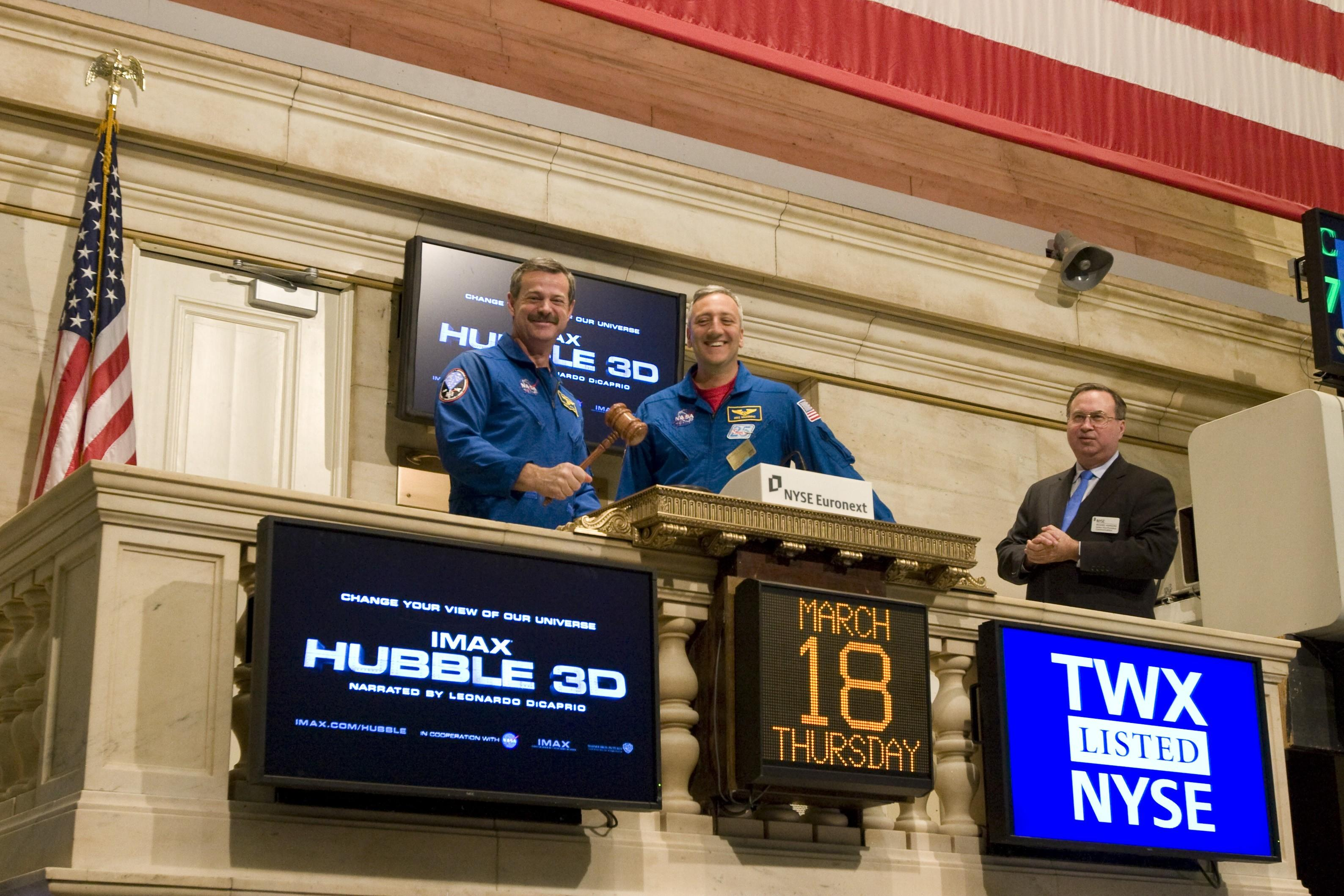 NASA astronauts Scott Altman and Mike Massimino of the STS-125 mission visit the New York Stock Exchange to support the release of Hubble 3D, the newest IMAX film, which documents the mission to repair the Hubble Space Telescope and features never-before-seen 3D flights through Hubble imagery such as the Orion Nebula. In honour of the occasion, Altman and Massimino ring 'The Closing Bell' ending the day's trading at the Exchange on Thursday, March 18, 2010.